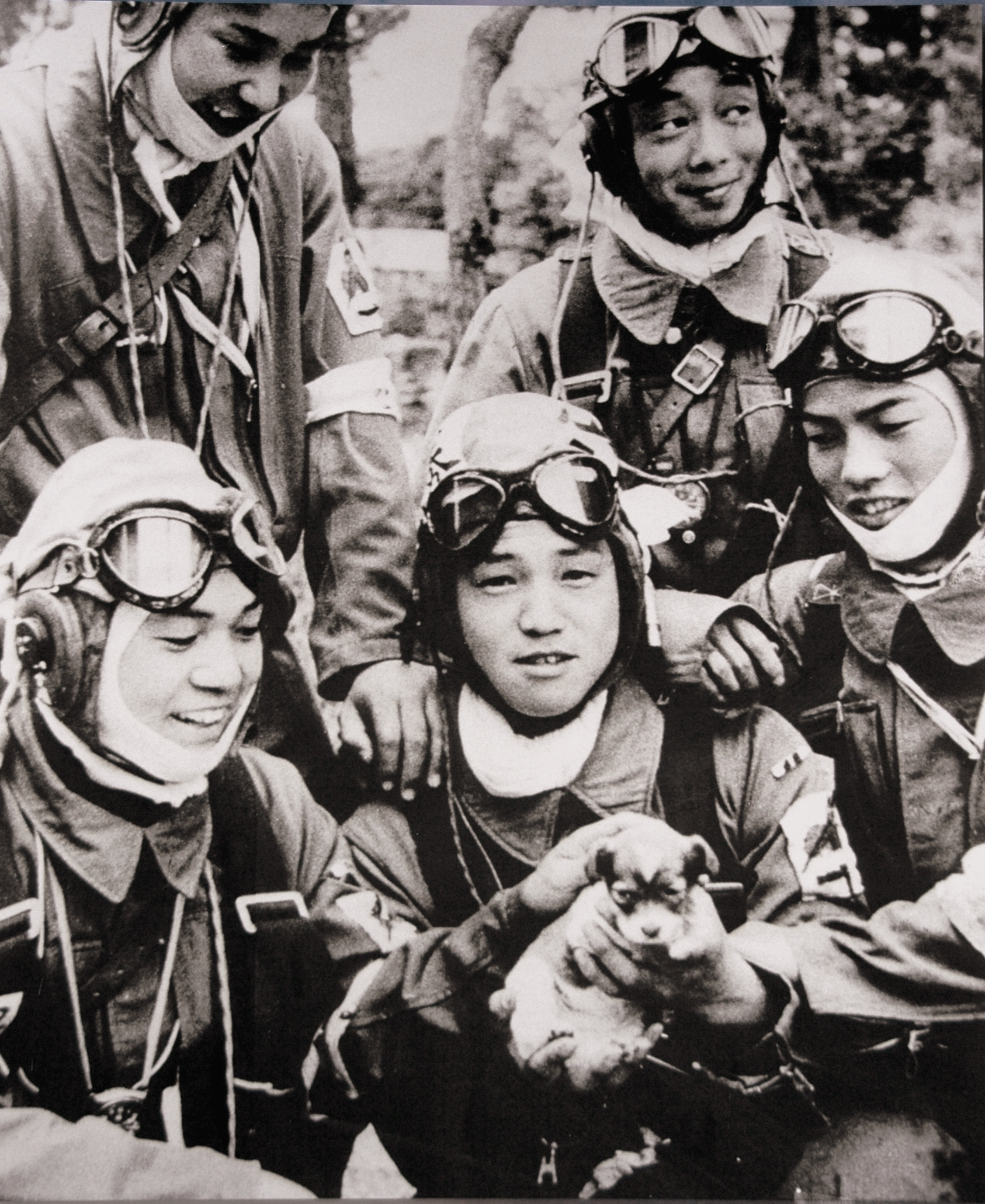 Members of 72nd Shinbu Squadron. Three of the five are 17 years old and the other two are 18 and 19 years old. The photo was taken the day before their mission. Left to right: front row Tsutomu Hayakawa, Yukio Araki, Takamasa Senda back row Kaname Takahashi, Mitsuyoshi Takahashi. Each of these young men were corporals. At 17, Yukio Araki is the youngest known Kamikaze pilot to die in the war.